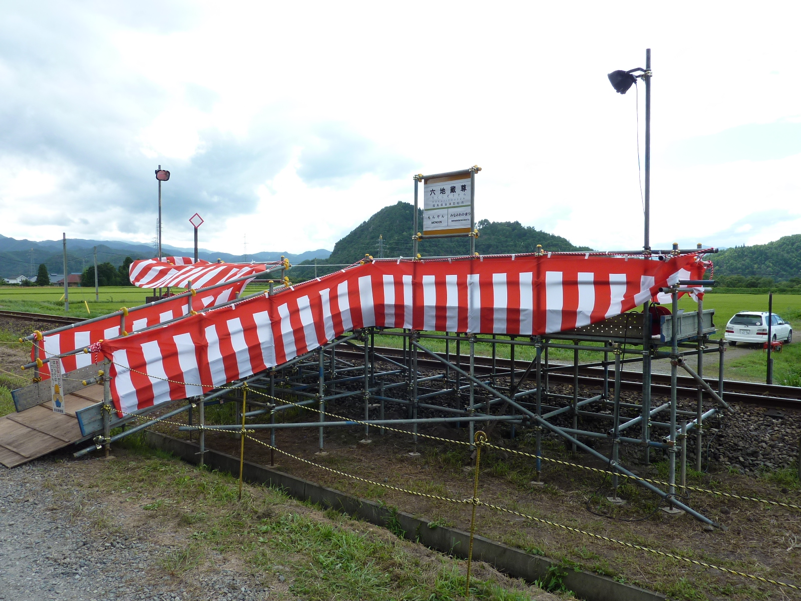 Rokujizouson Station on Aizu Railway. (Monden-machi oaza Ichinoseki,Aizuwakamatsu-shi,Fukushima-ken,JAPAN)